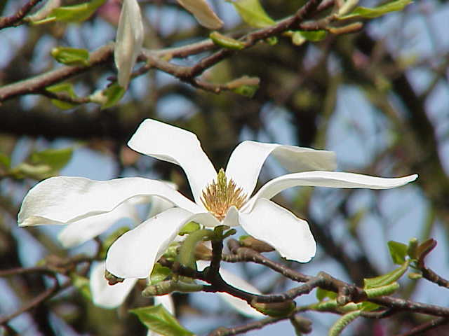 Species: Magnolia kobus borealis Family: Magnoliaceae Image No. 2